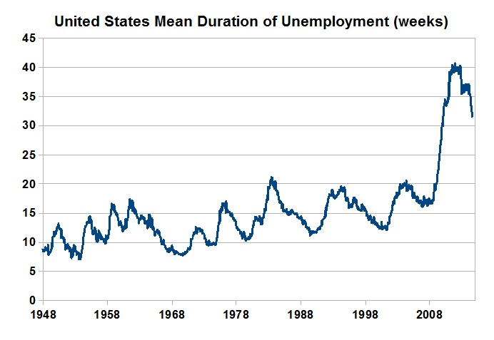 United States mean duration of unemployment 1948-2014. Data source: FRED, Federal Reserve Economic Data, Federal Reserve Bank of St. Louis: Average (Mean) Duration of Unemployment [UEMPMEAN] ; U.S. Department of Labor: Bureau of Labor Statistics; accessed October 7, 2014.